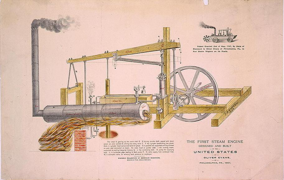 1893 illustration of Oliver Evans' Columbian steam engine of 1812. The artist's description of the diagram is inaccurate, as the engine was not the United States' first, nor was it built in 1801, although Evans' earlier designs bore similarities to this one and did appear from 1801 onwards